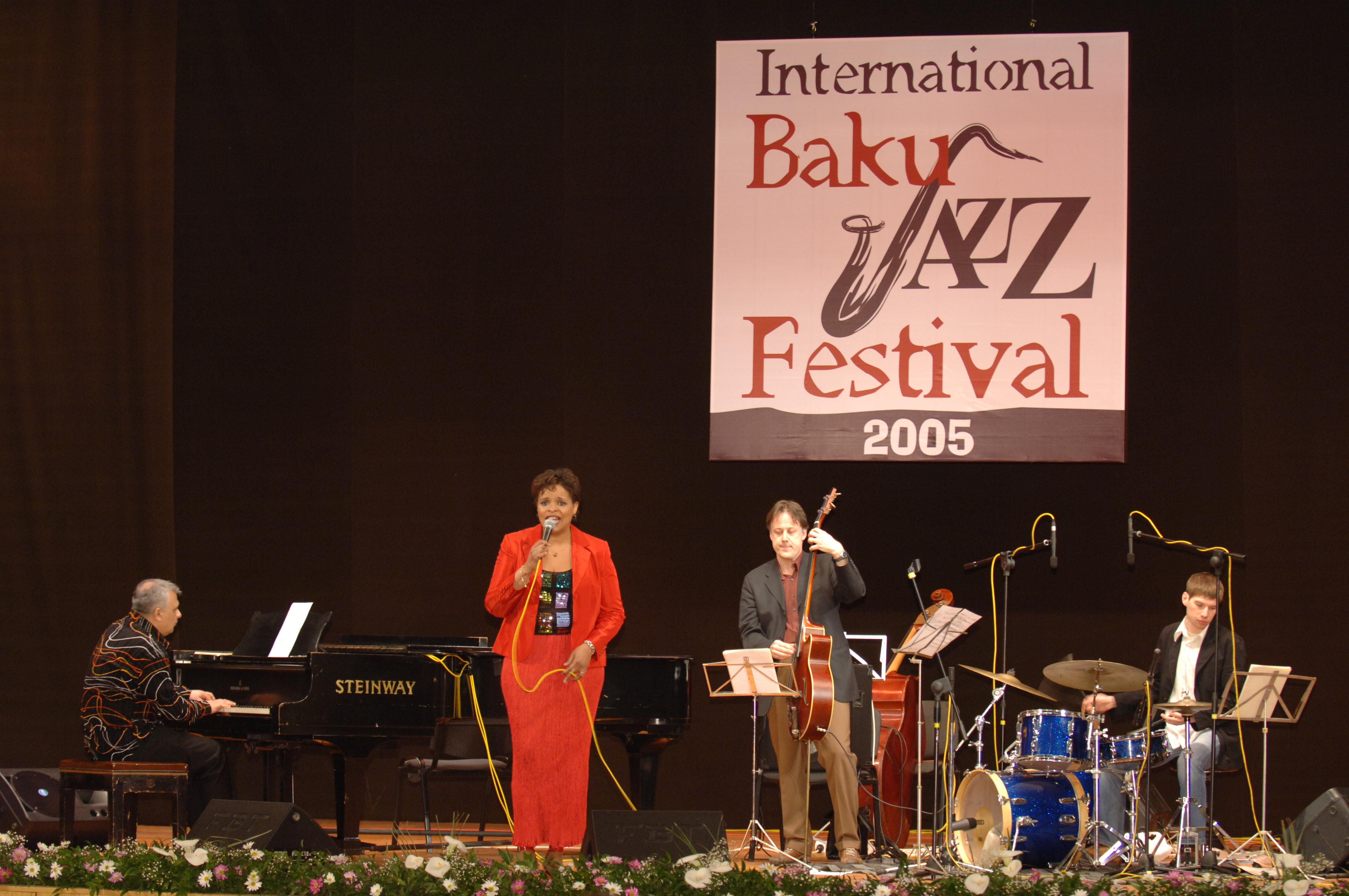 Deborah J. Carter Quartet performance. Baku International Jazz Festival 2005